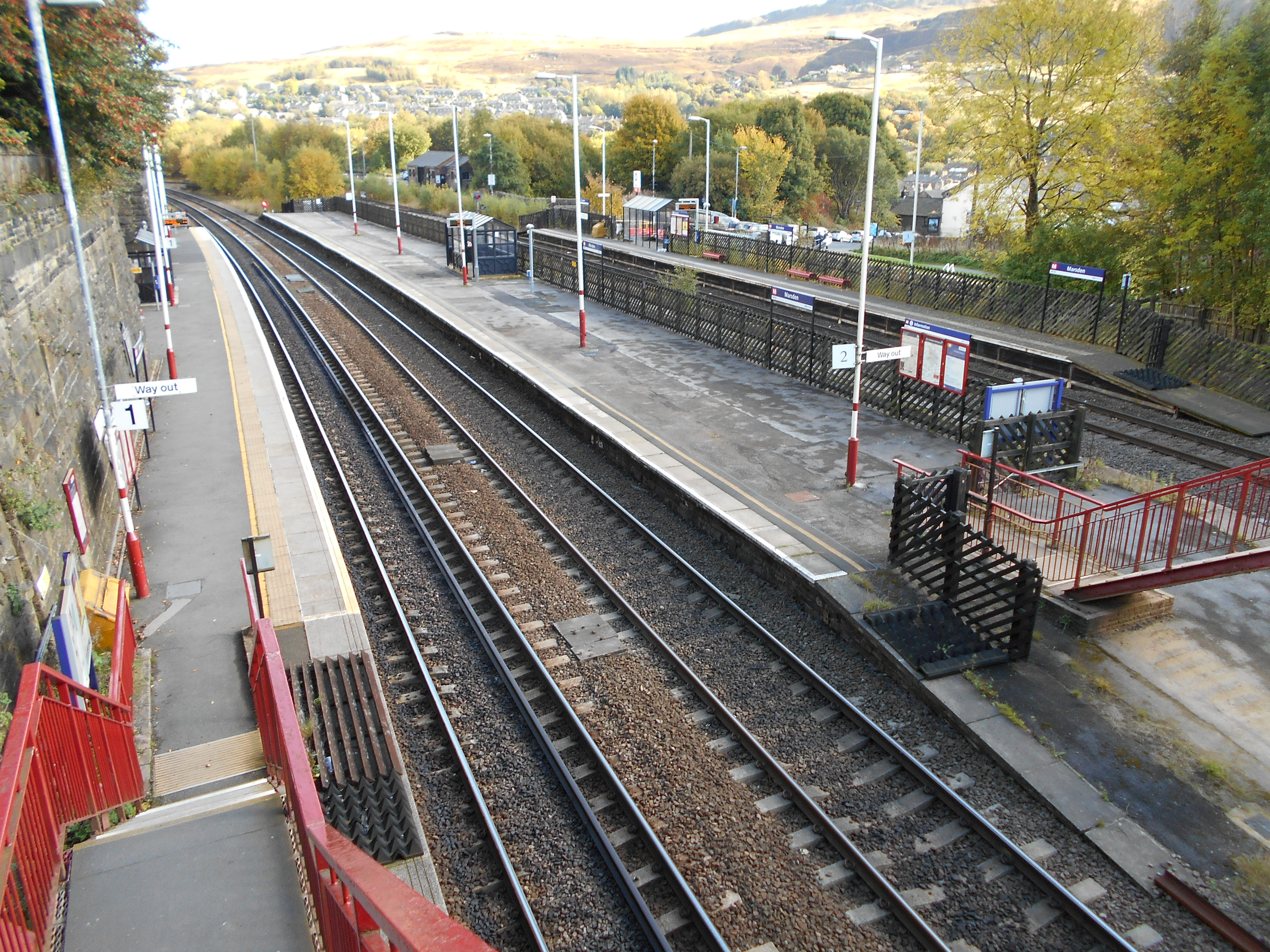 View from roadbridge over Marsden railway station.